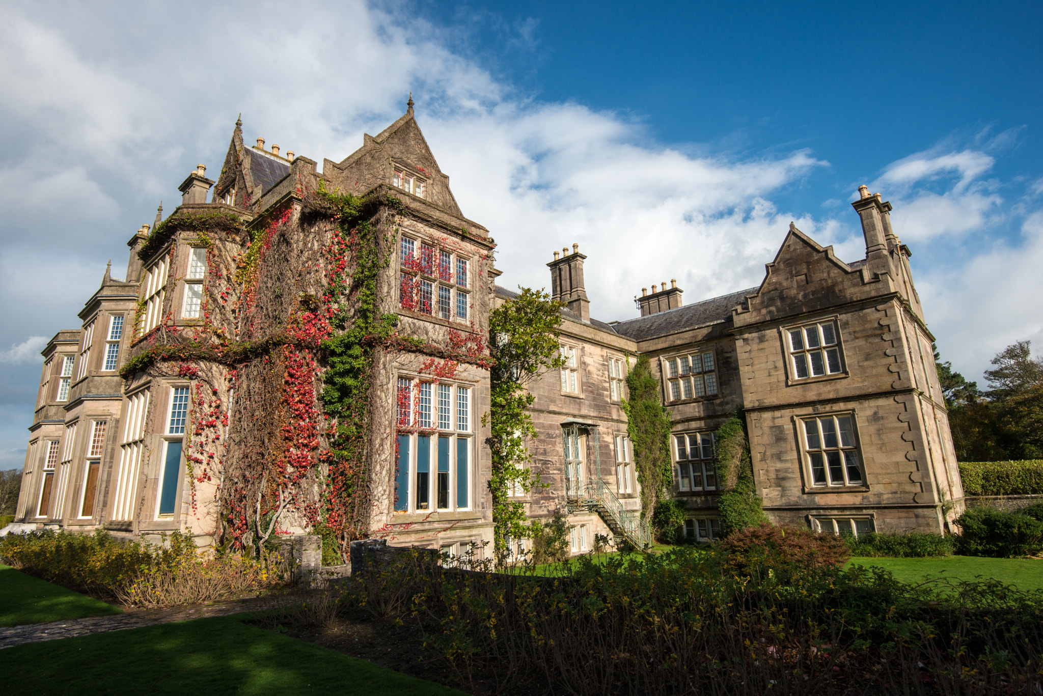 500px provided description: Photo from my autumn roadtrip through Ireland, 2014 [#Ireland ,#Killarney ,#Kerry ,#Ring of Kerry]